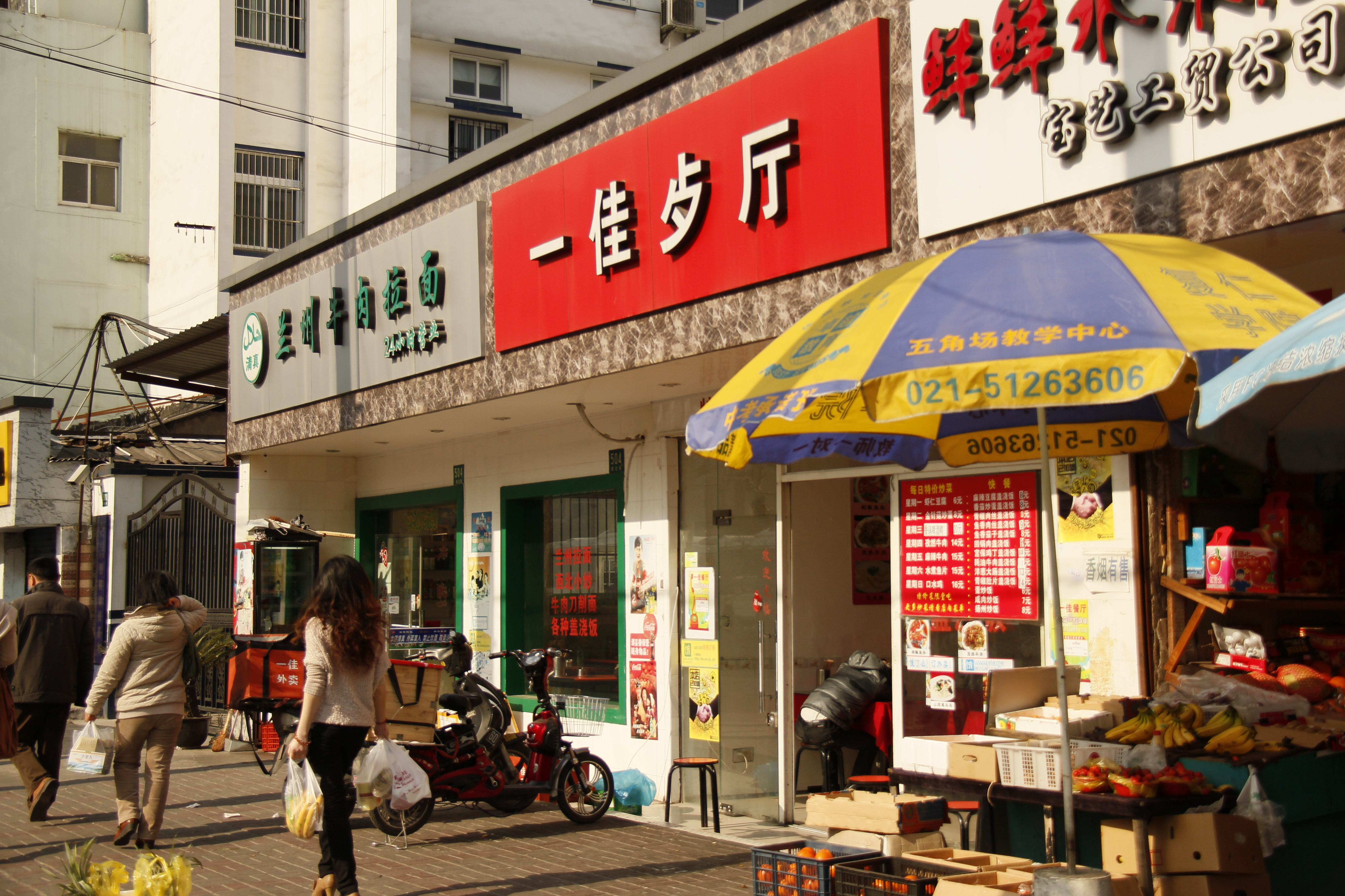 A restaurant in Shanghai near the corner of Guoding Rd. and Daxue Rd. which contains a character usage from the second round of simplified Chinese characters